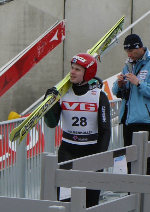 Olli Muotka at World Cup in Holmenkollen, Norway